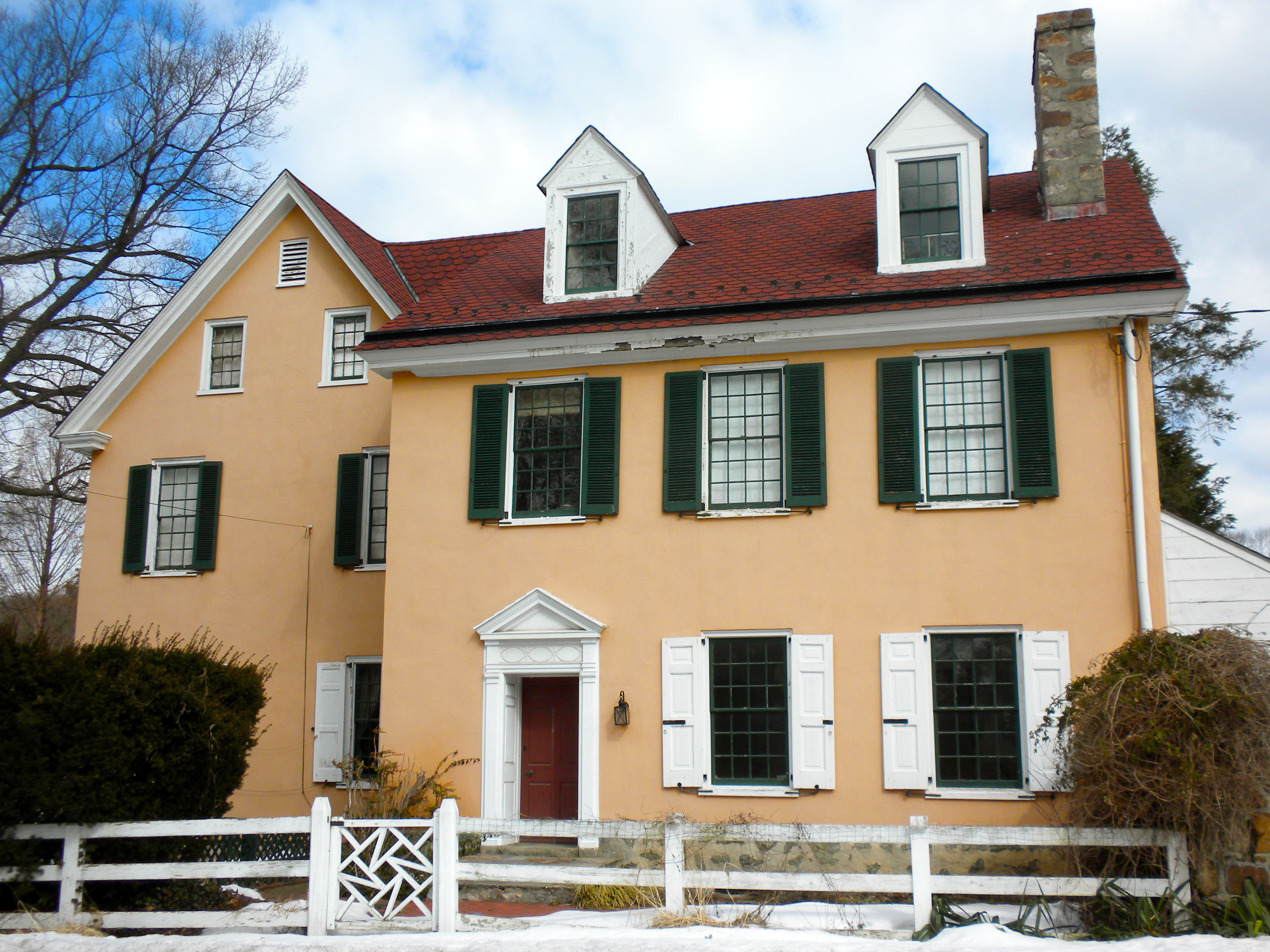 "Roughwood" On NRHP since November 23, 1984. At 107 Old Lancaster Road in Devon, PA, Chester County, Easttown Township